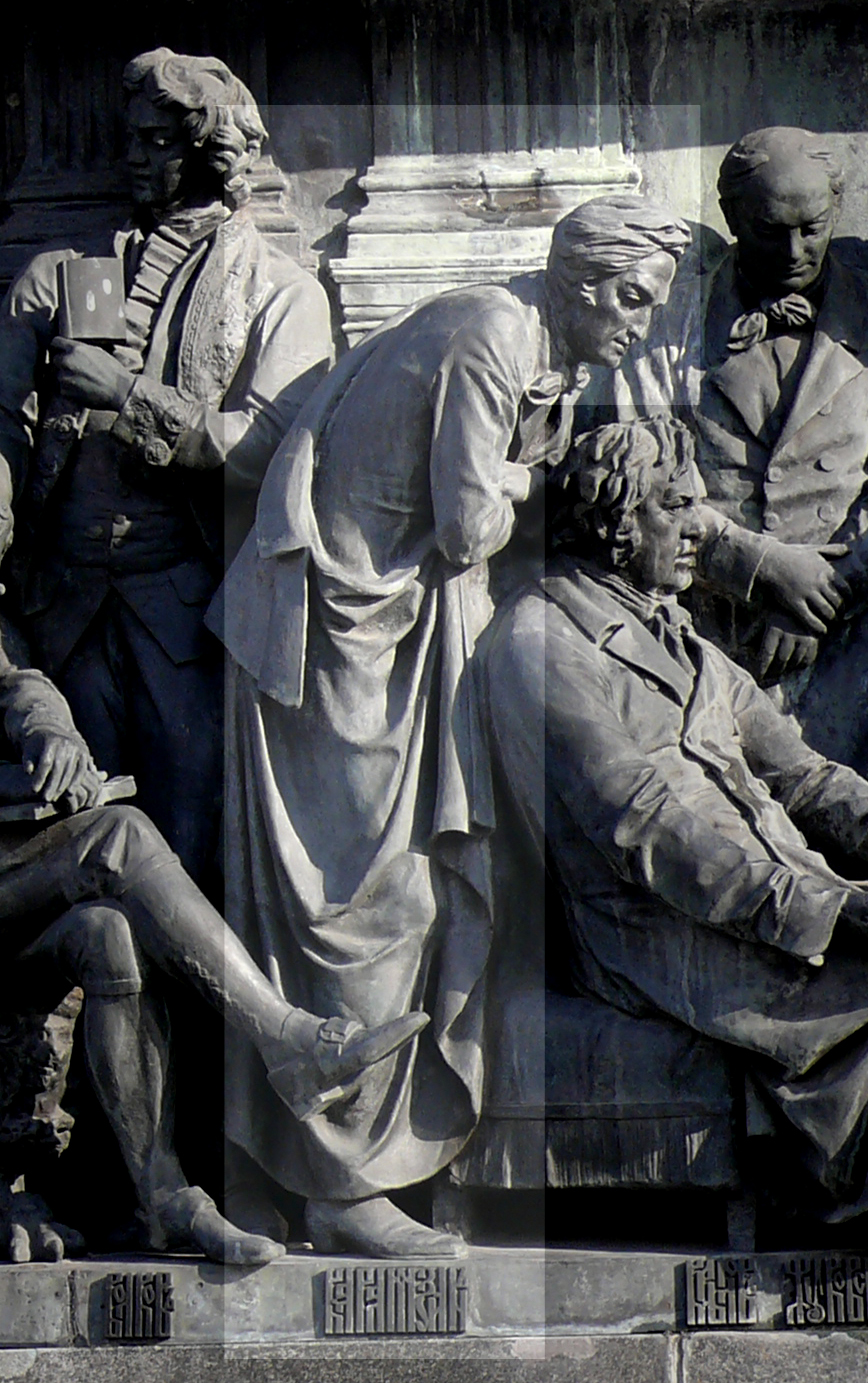 Nikolai Karamzin on the Monument «Millennium of Russia» in Veliky Novgorod